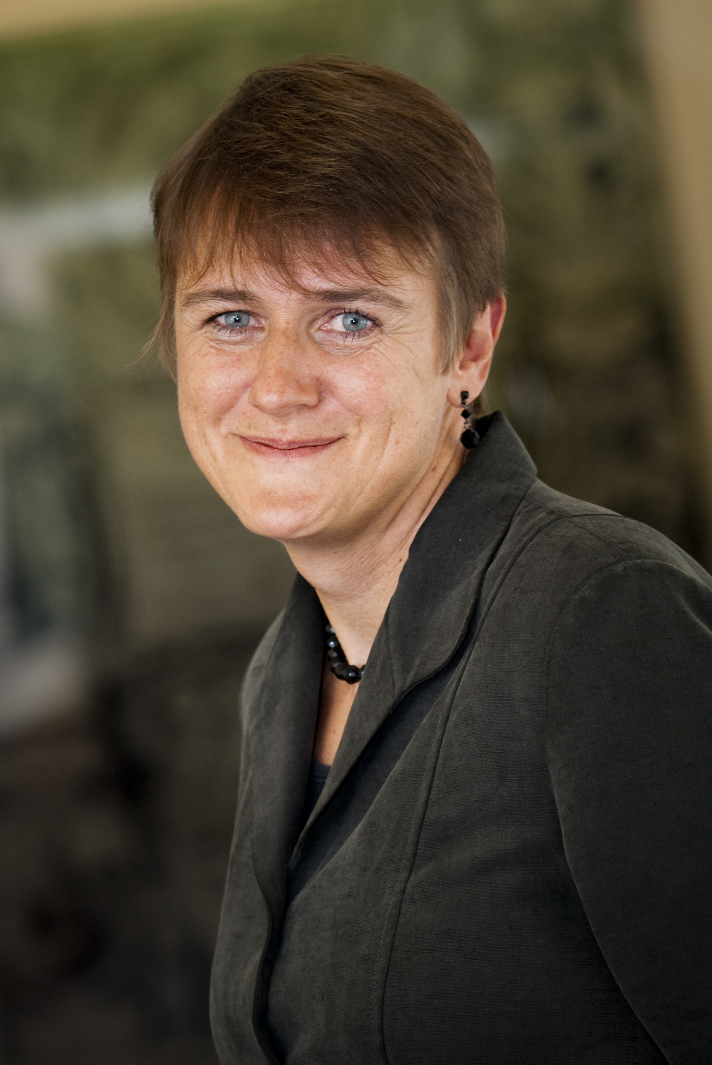 Photograph of chemist Emma Parmee, recipient of the 2009 Gordon E. Moore Medal, given by the Society of Chemical Industry (SCI America), on Innovation Day, September 15, 2009, at the Chemical Heritage Foundation, Philadelphia, PA, USA. a